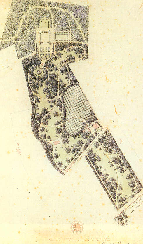 plan of Pfingstberg, Potsdam, Germany